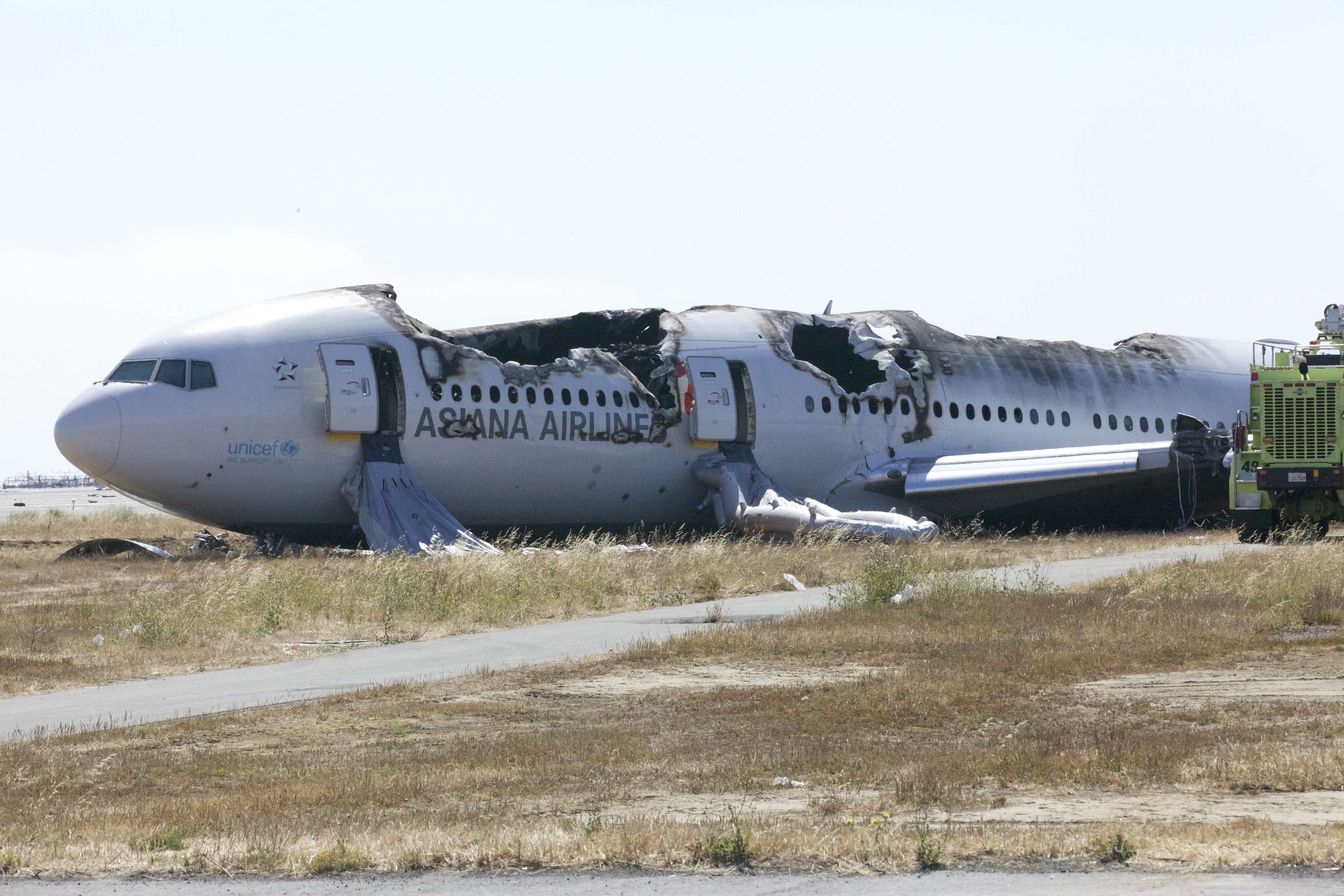 Front left view of the fuselage of Asiana Airlines Flight 214 after it crash landed in San Francisco.